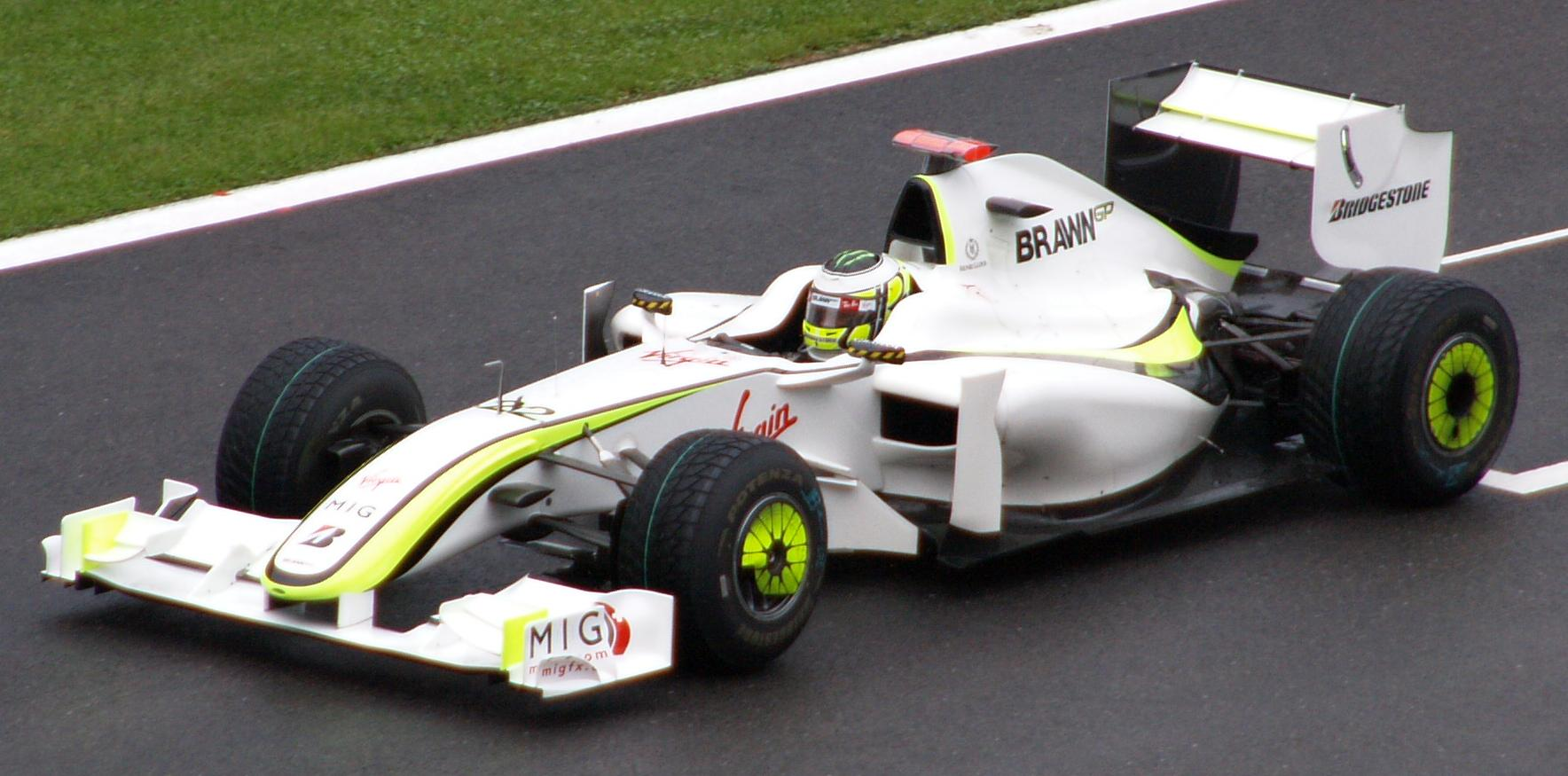 Jenson Button driving for Brawn GP at the 2009 Belgian Grand Prix.